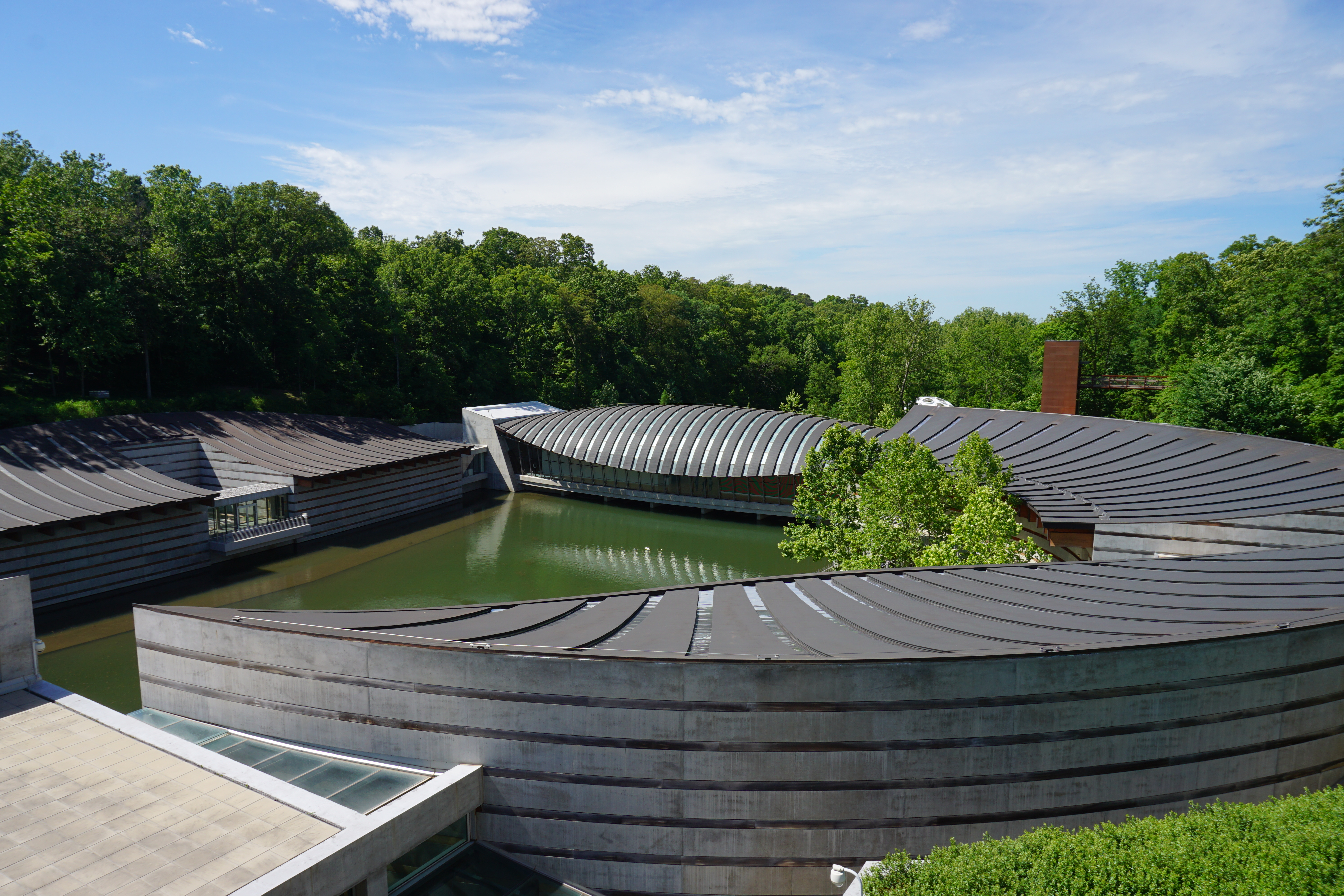 The exterior of the Crystal Bridges Museum of American Art in Bentonville, Arkansas (United States).